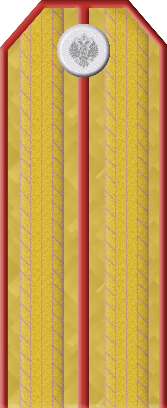 Rank insignia of the Imperial Russian Army, here "Captain" – shoulder strap 1909-1917. Particularity: Cavalry “Rittmeister“, Cossack Army “Yesaul”.